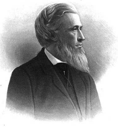 Hurd, Duane Hamilton (1888), History of Essex County, Massachusetts: with Biographical Sketches of Many of its Pioneers and Prominent Men, Volume 1, Issue 1, Philadelphia, PA: J. W. Lewis & CO., p. 353.